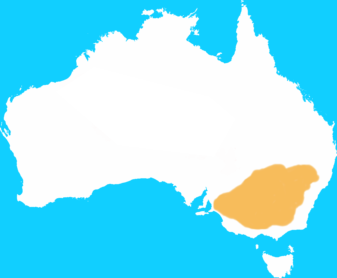 A map showing the historical distribution of the now extinct Eastern Hare Wallaby (.Lagorchestes leporides).